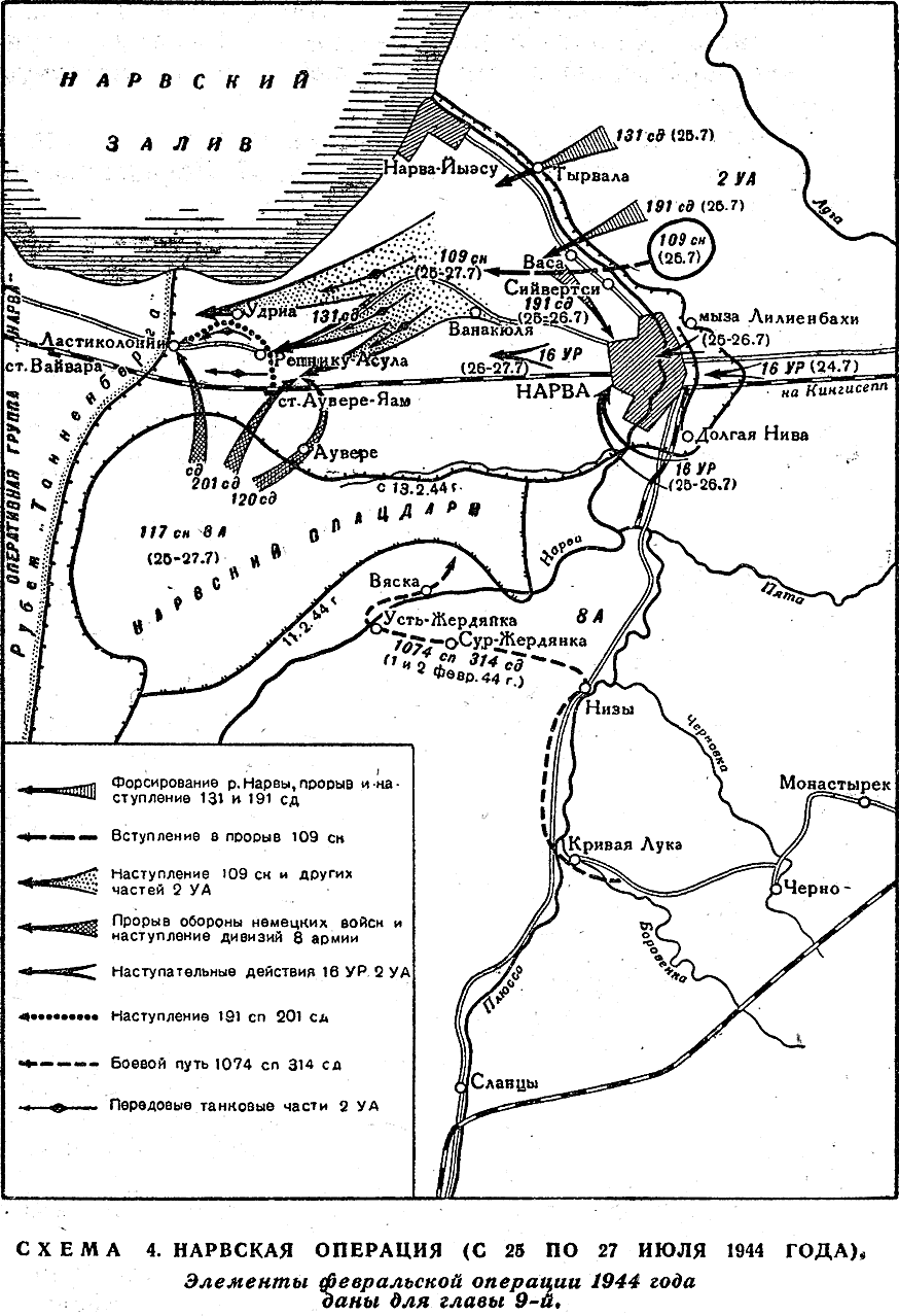 Soviet map of Narva Operation (24–30 July)